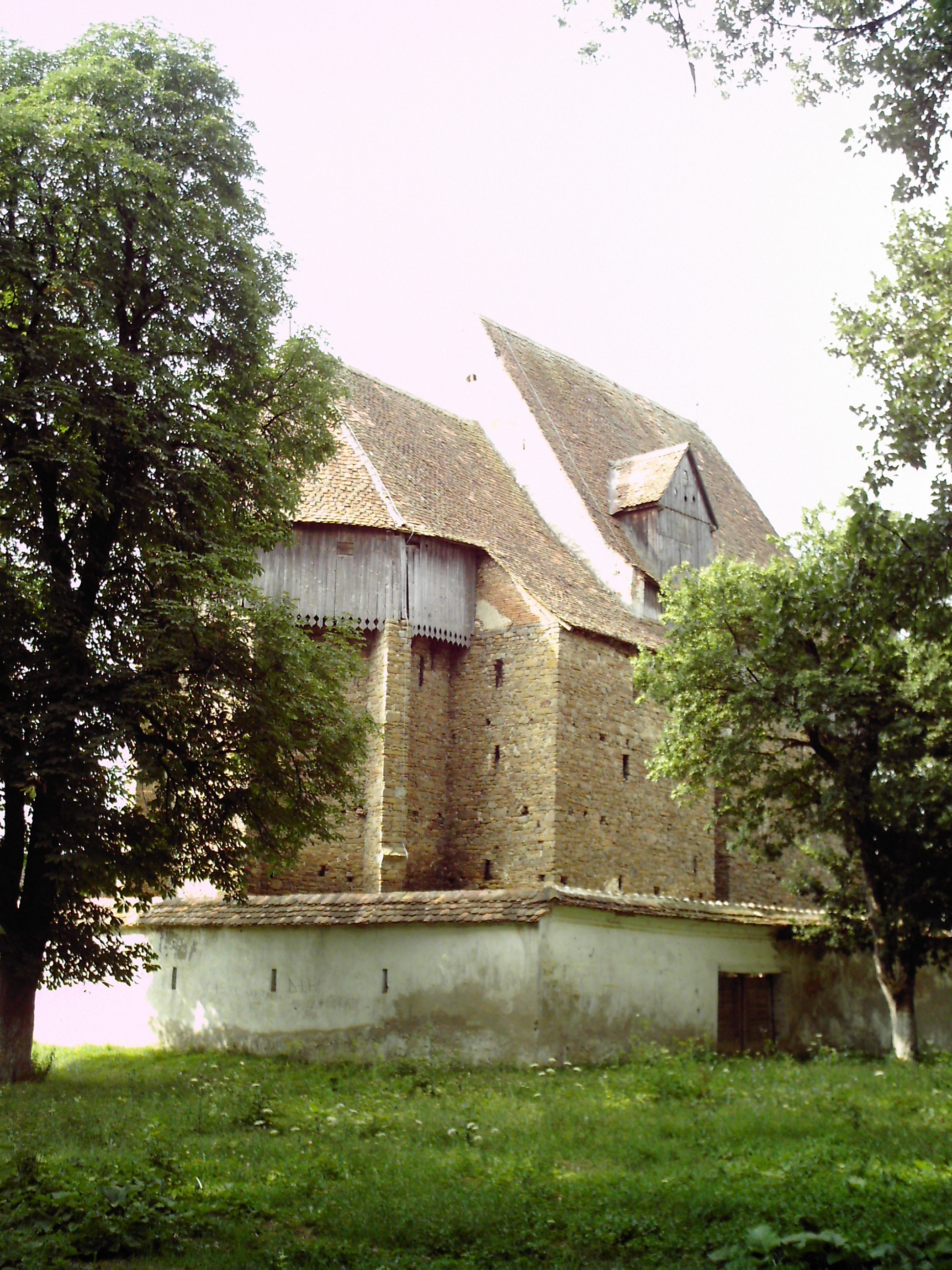 Saxon Fortified Church in Bradeni Transylvania, Romania